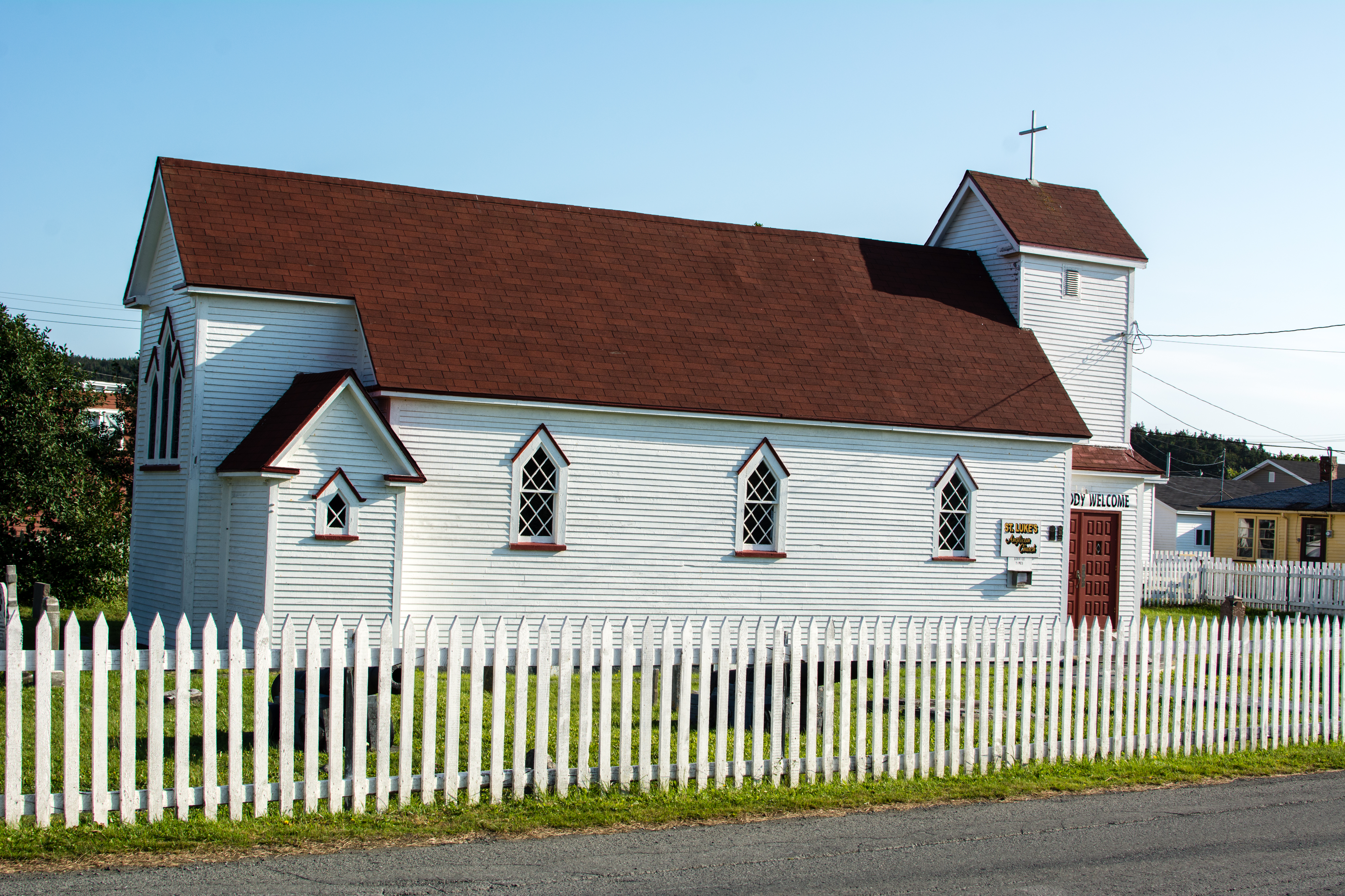 St. Luke's Anligcan Church in Placentia, Newfoundland and Labrador